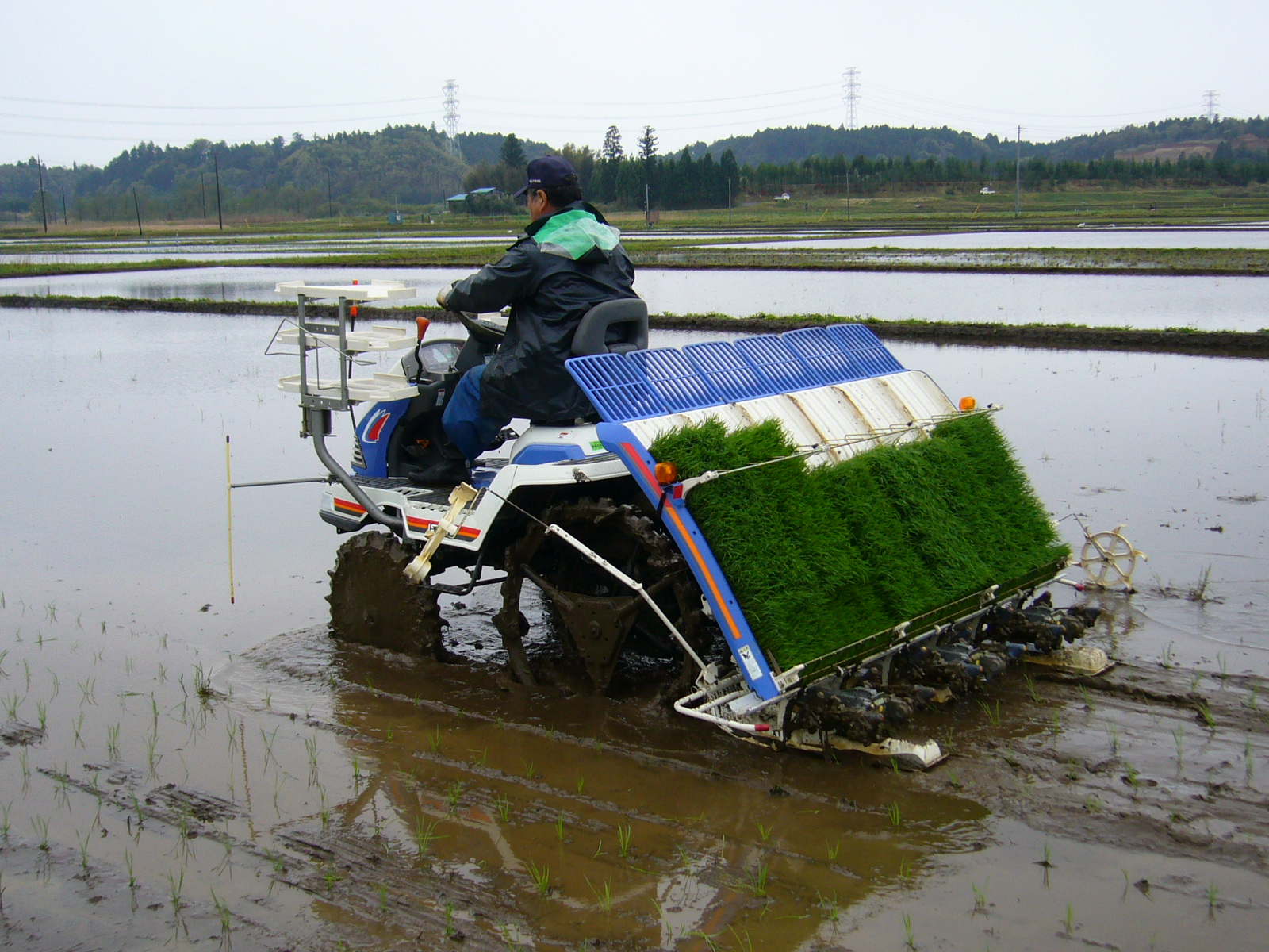 Rice planting machine 2, katori-city, Japan